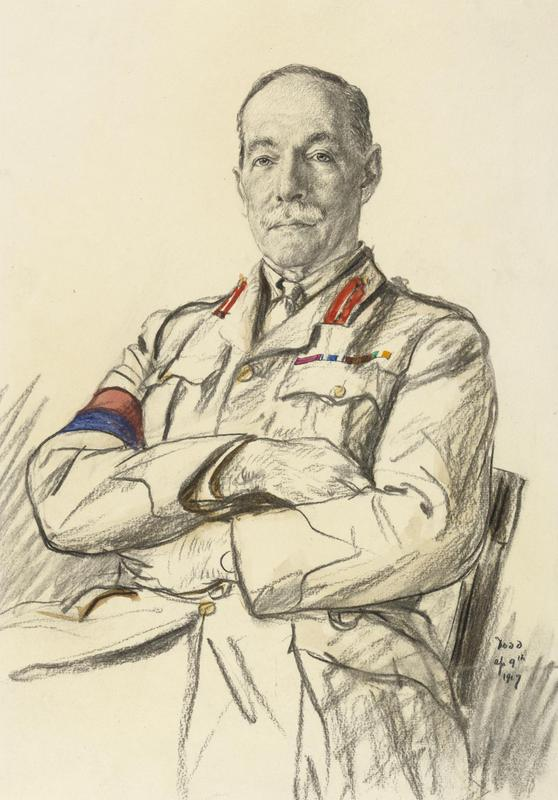 Major-general Spring Robert Rice, Cb image: a half length portrait of Major-General Spring Rice in uniform, sitting on a chair with his arms folded.